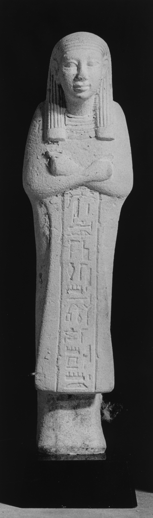 This carved and painted ushabti figure has long hair, necklaces, crossed arms and no tools. The tools may have originally been painted on. There is an inscription on the front of the skirt.